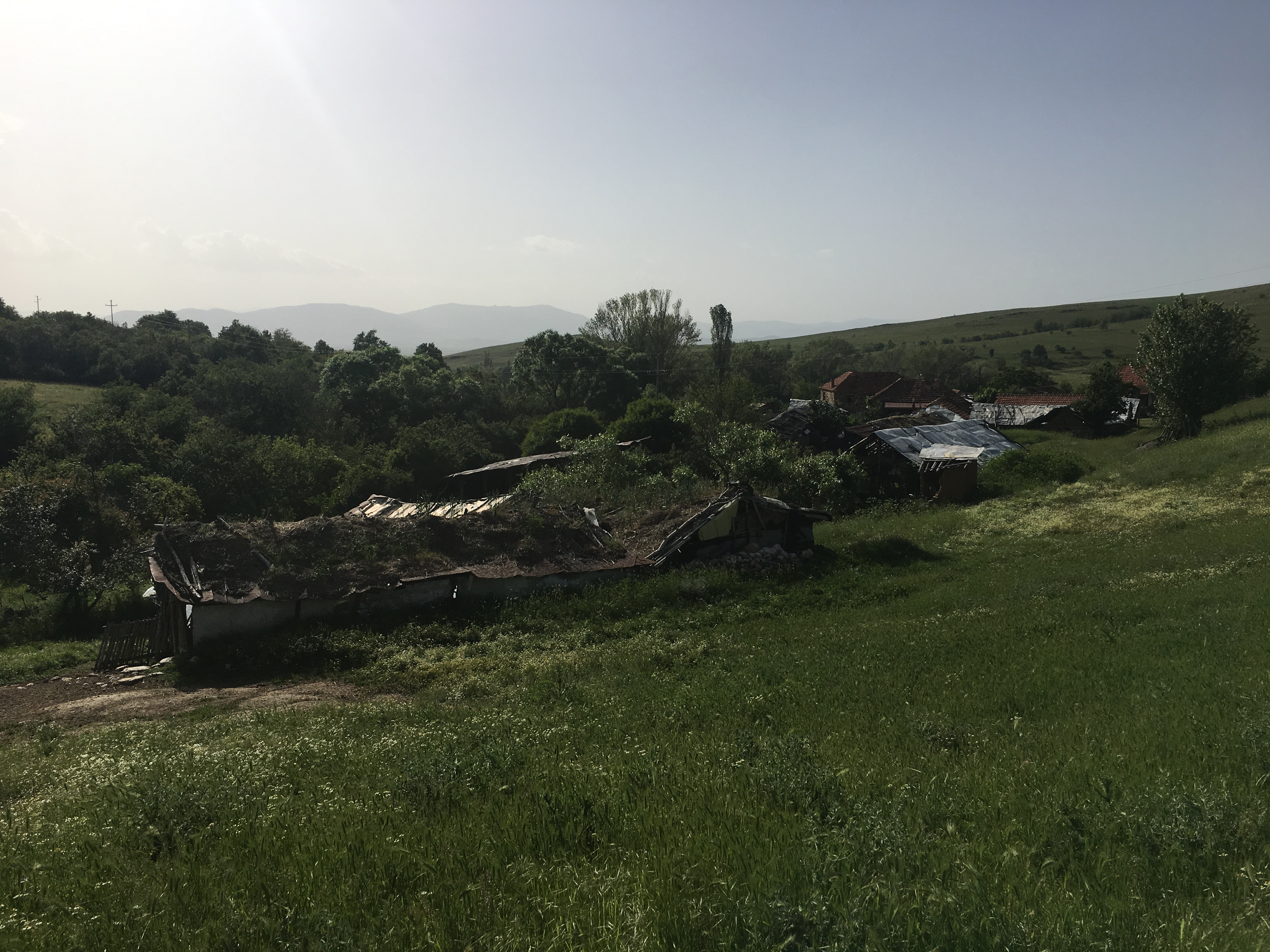 A view of the village of Crničani